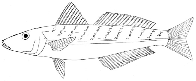 Diagram of Sillago flindersi, the eastern school whiting. Based on McKay (1992) and CSIRO photographs